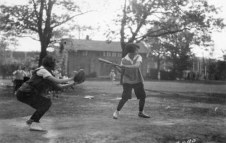 Woman batter in baseball game at the University of Wisconsin--Madison, 1928. Wisconsin Badgers baseball University of Wisconsin Digital Collections University of WIsconsin Digital Collections